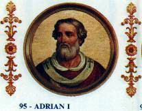 Portrait of Pope Adrian I in the Basilica of Saint Paul Outside the Walls, Rome